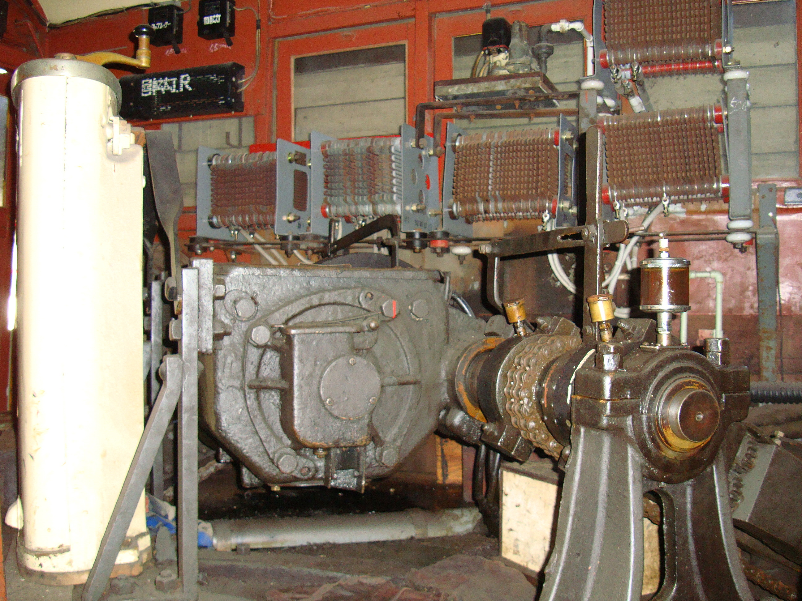 Hakodate Snow removal tram